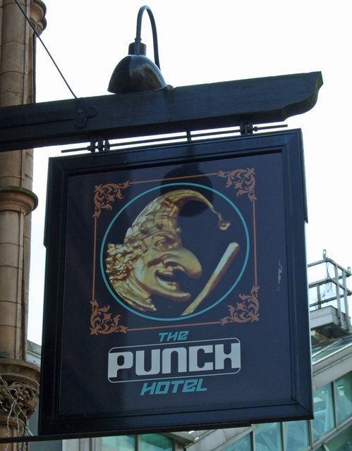 The Sign of The Punch Hotel. The Punch Hotel 234232 is situated at the Queen Victoria Square end of Carr Lane.